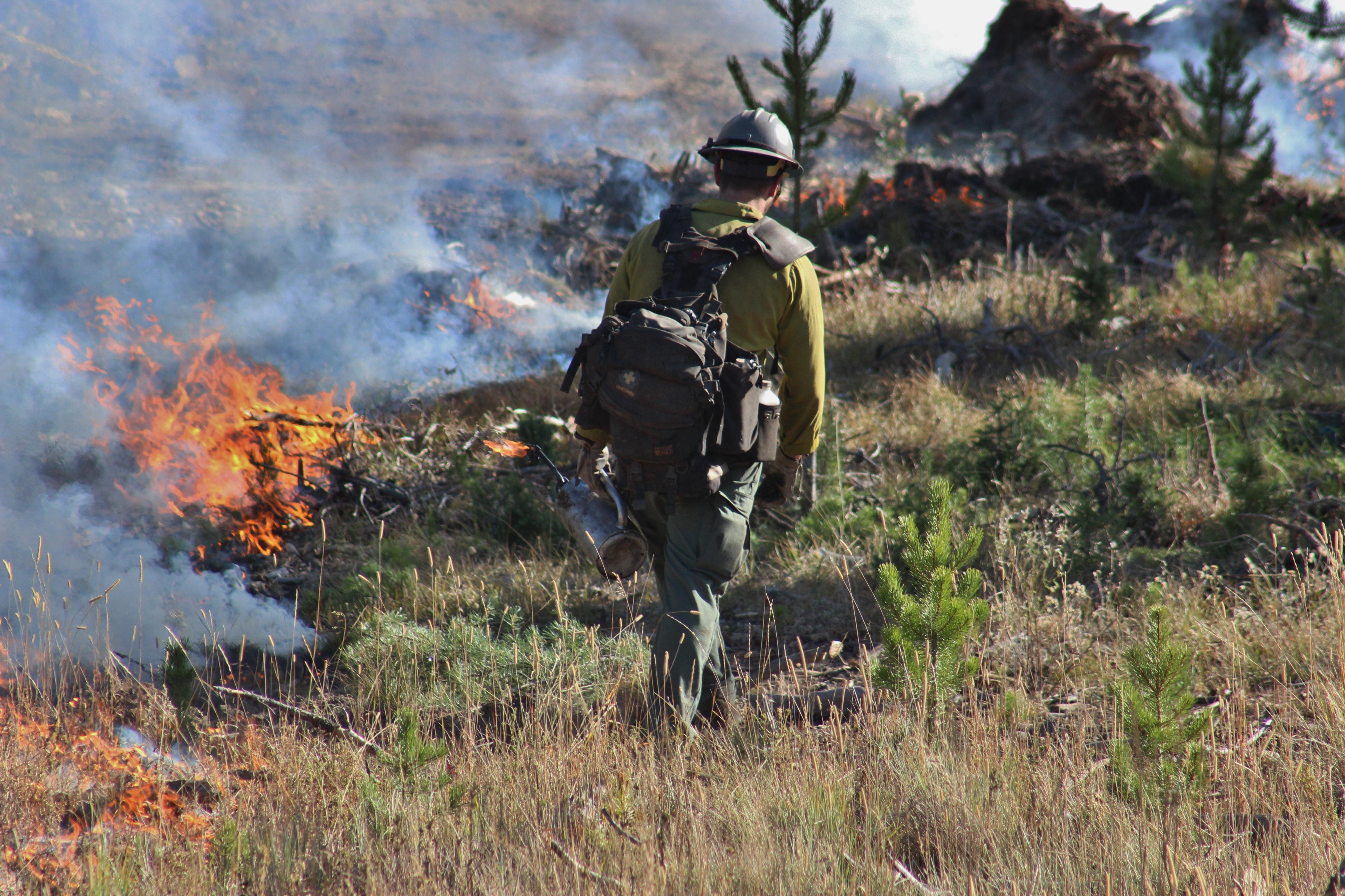 A hotshot firefighter uses a driptorch to do a back burn on the Roosevelt Fire near Bondurant, Wyoming on September 25, 2018